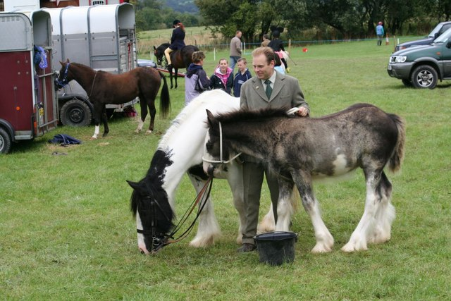 He's a big foal Though this fellow was a big foal he was cute; the owner told me they were gypsy wagon horses.